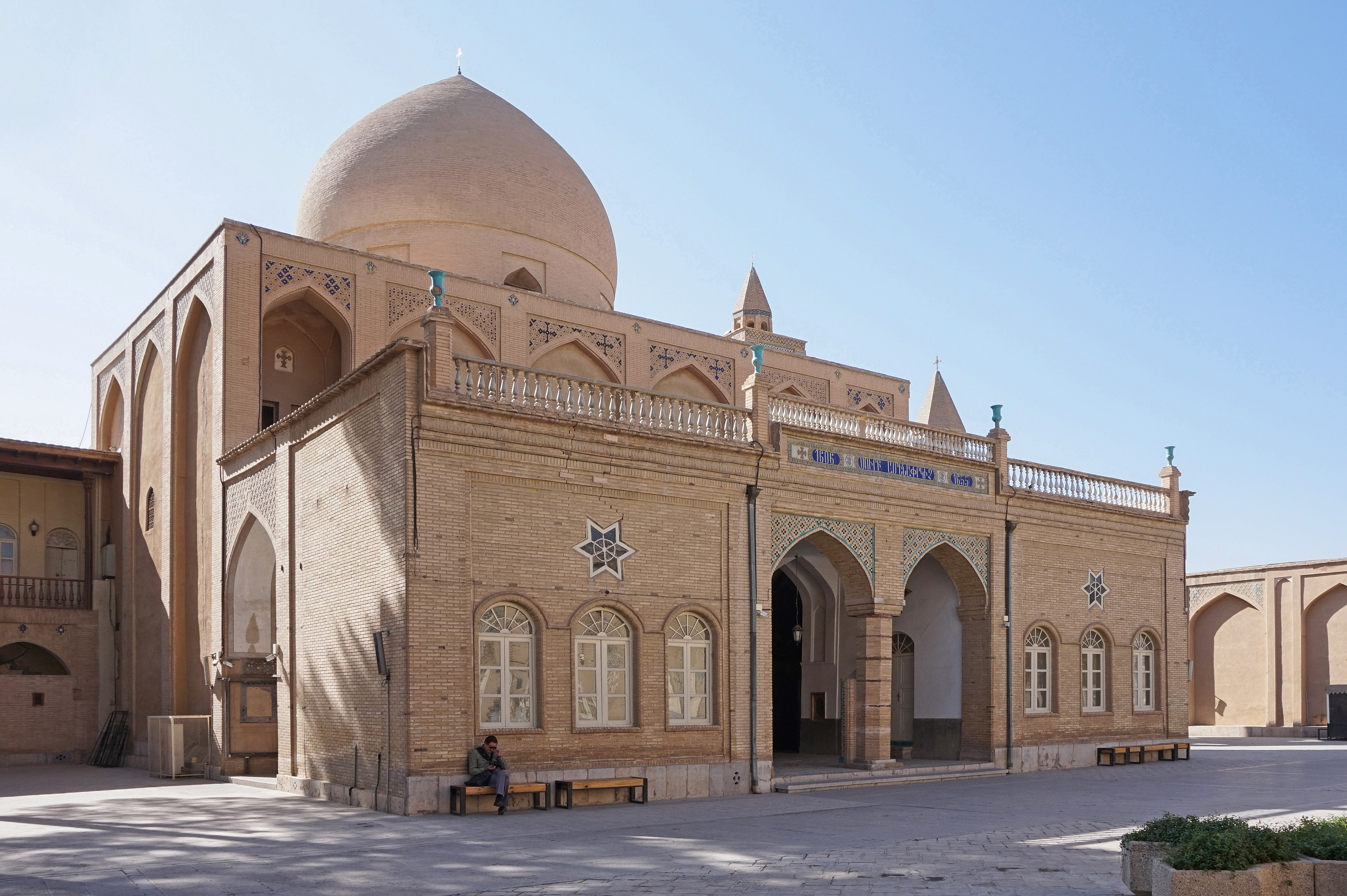 Vank Cathedral, Isfahan, Iran